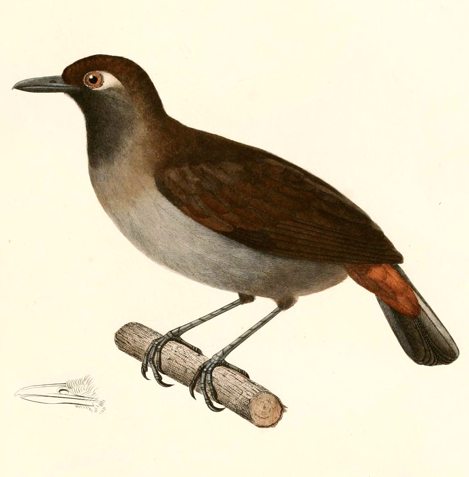 « Myothera analis » = Formicarius analis (Black-faced Antthrush)